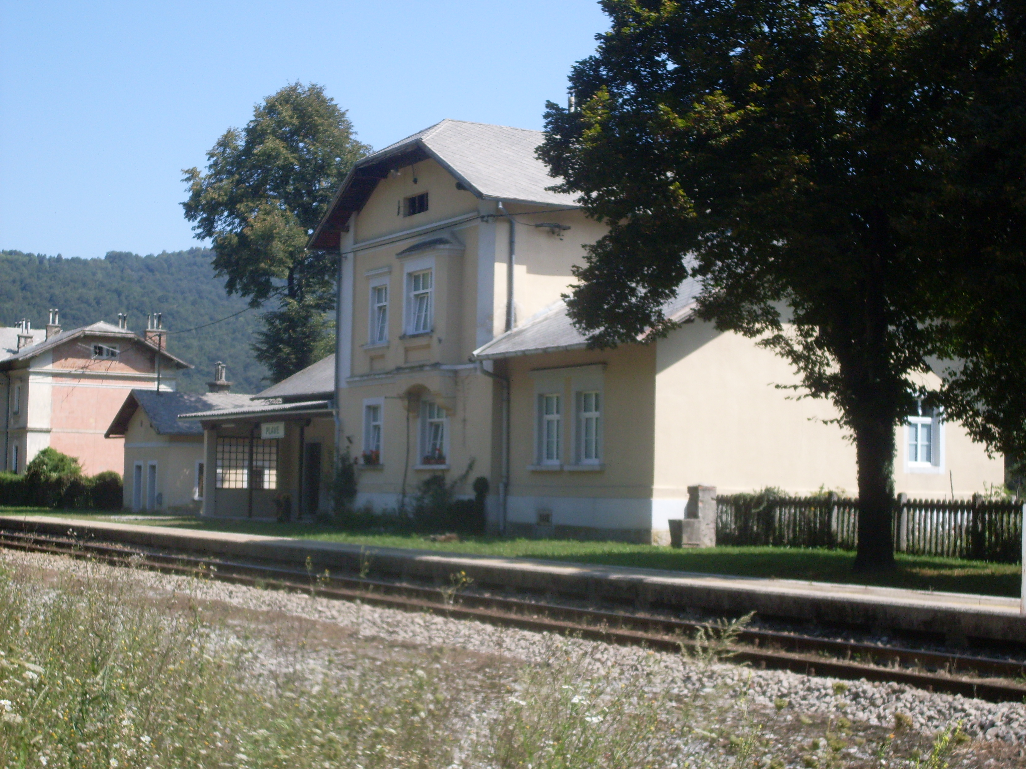 Railway halt in PlaveSlovenščina: Železniško postajališče Plave